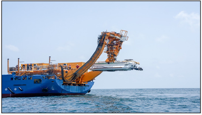 The Indian Navy successfully concluded maiden trials of the Deep Submergence Rescue Vehicle (DSRV) on 15 October 2018. The DSRV carried out under water mating with a bottomed submarine, at a depth of over 300 feet. On successful mating the DSRV opened its hatches and the submarine hatches and carried out transfer of personnel from the submarine to the DSRV. These sea trials have proven the newly inducted DSRV’s ability to undertake rescue operations from disabled submarines at sea and have provided the Indian Navy with a critical capability. During the trials the DSRV also dived successfully up to 666 metres, which is a record for deepest submergence by a ‘manned vessel’ in Indian waters. The DSRV crew also carried out ROV operations at a depth of over 750 metres and Side Scan Sonar operations at a depth of over 650 metres, which are all ‘firsts’ for the Indian Navy.